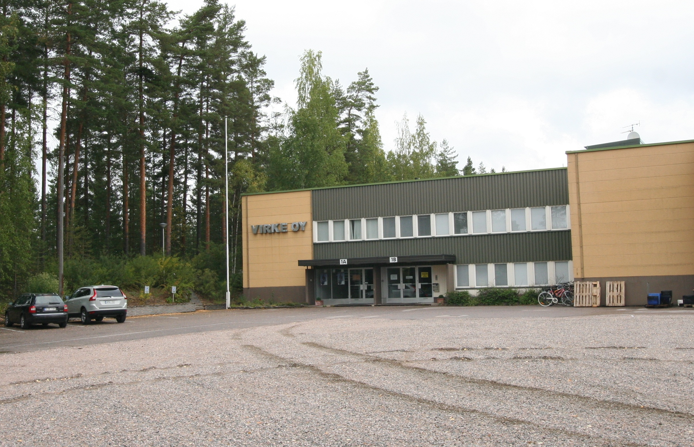 Virke Factory (Finnkarelia) in Orimattila